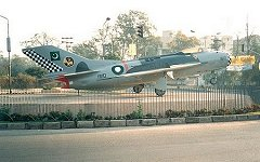 Shenyang F-6 of the Pakistan Air Force I took this picture on a trip to Pakistan in 2002